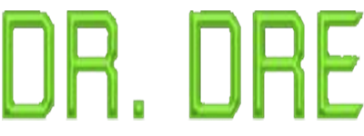 Dre Dre logo